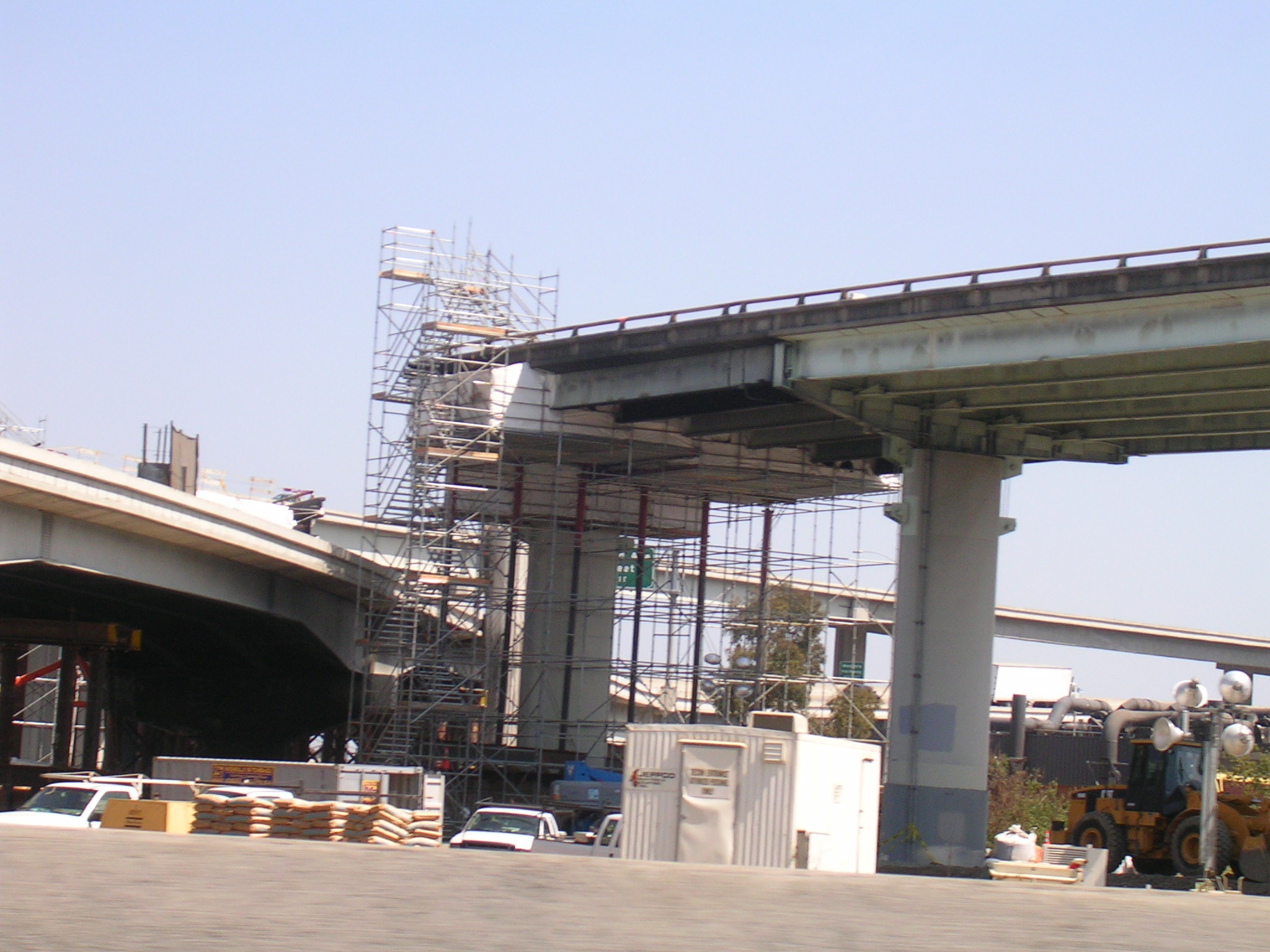 Reconstruction work of the eastbound Interstate 580 connector ramp after the collapse on 2007-04-29 due to a gasoline fire.